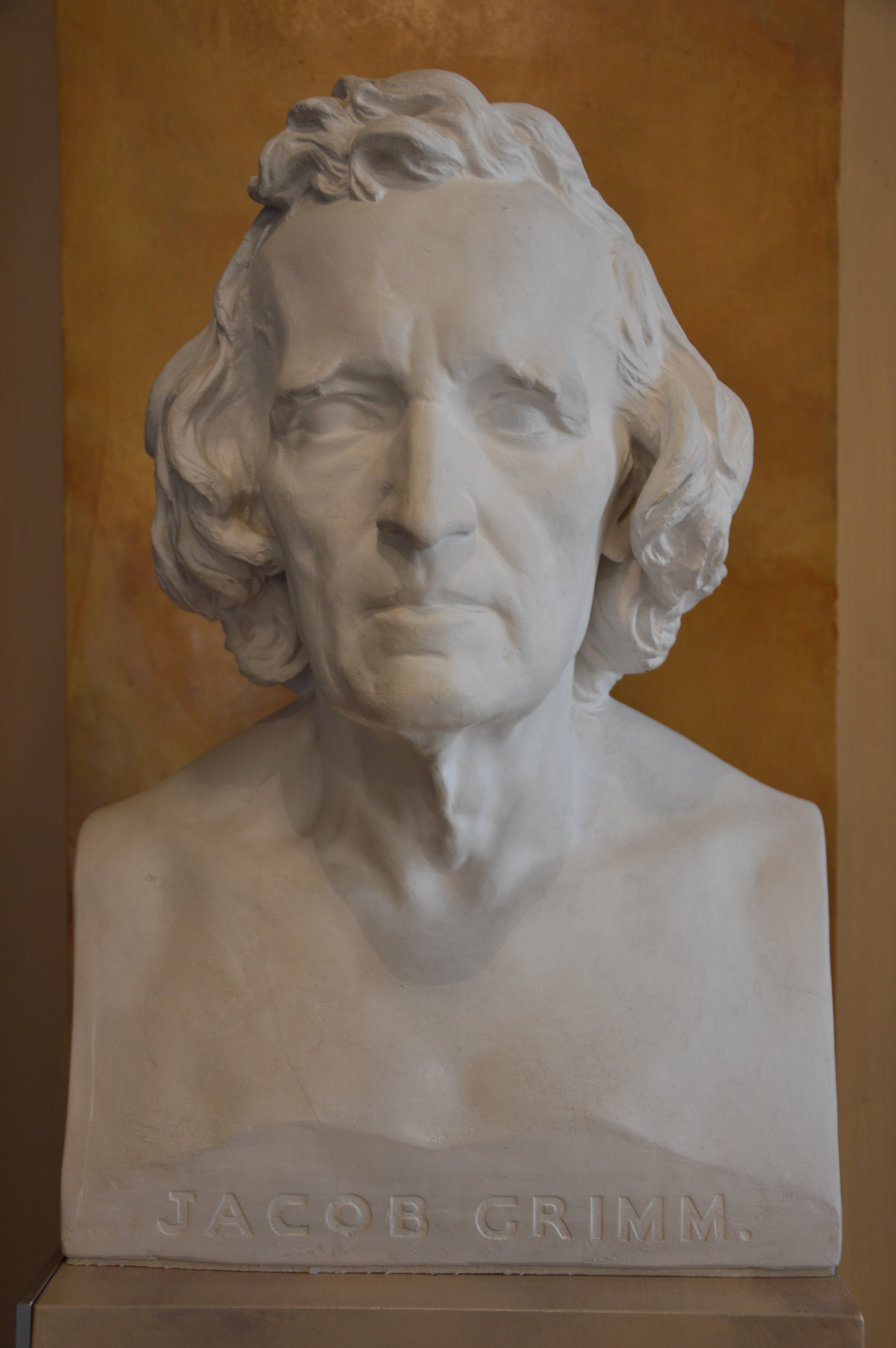 Bust of Jacob Grimm (1856-58) by Elisabet Ney in the Aula, Georg-August-University, Göttingen